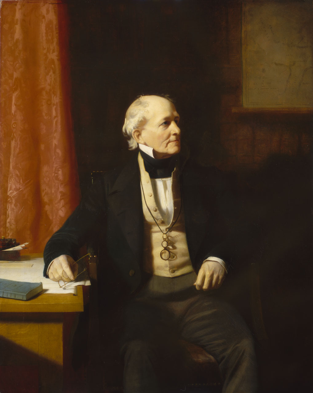 Francis Beaufort is seated in a library armchair, facing front, looking to his left